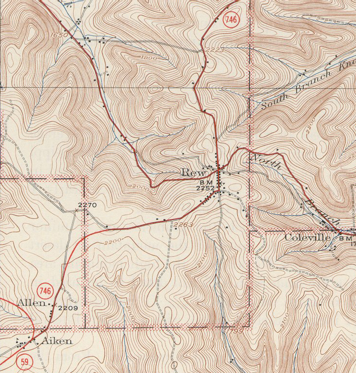 Quadrangle from the 1920s showing the southern end and alignment of Pennsylvania Route 746 in Aiken.